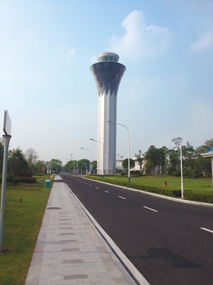 This new air traffic control tower in operation from 2014 on